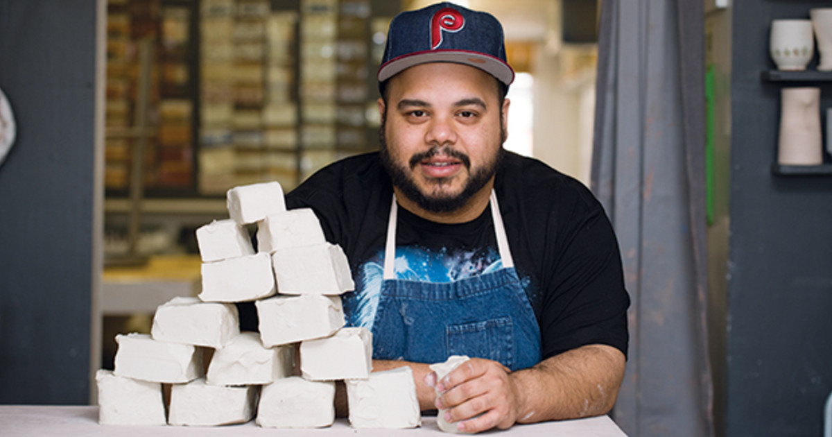 Artists Portrait